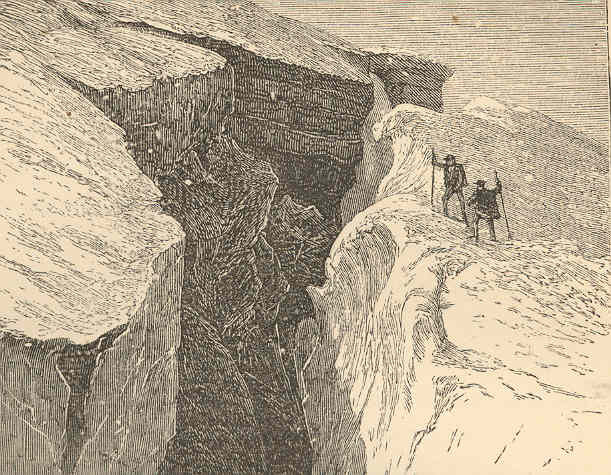 Subject: Glaciers Tag: Polar